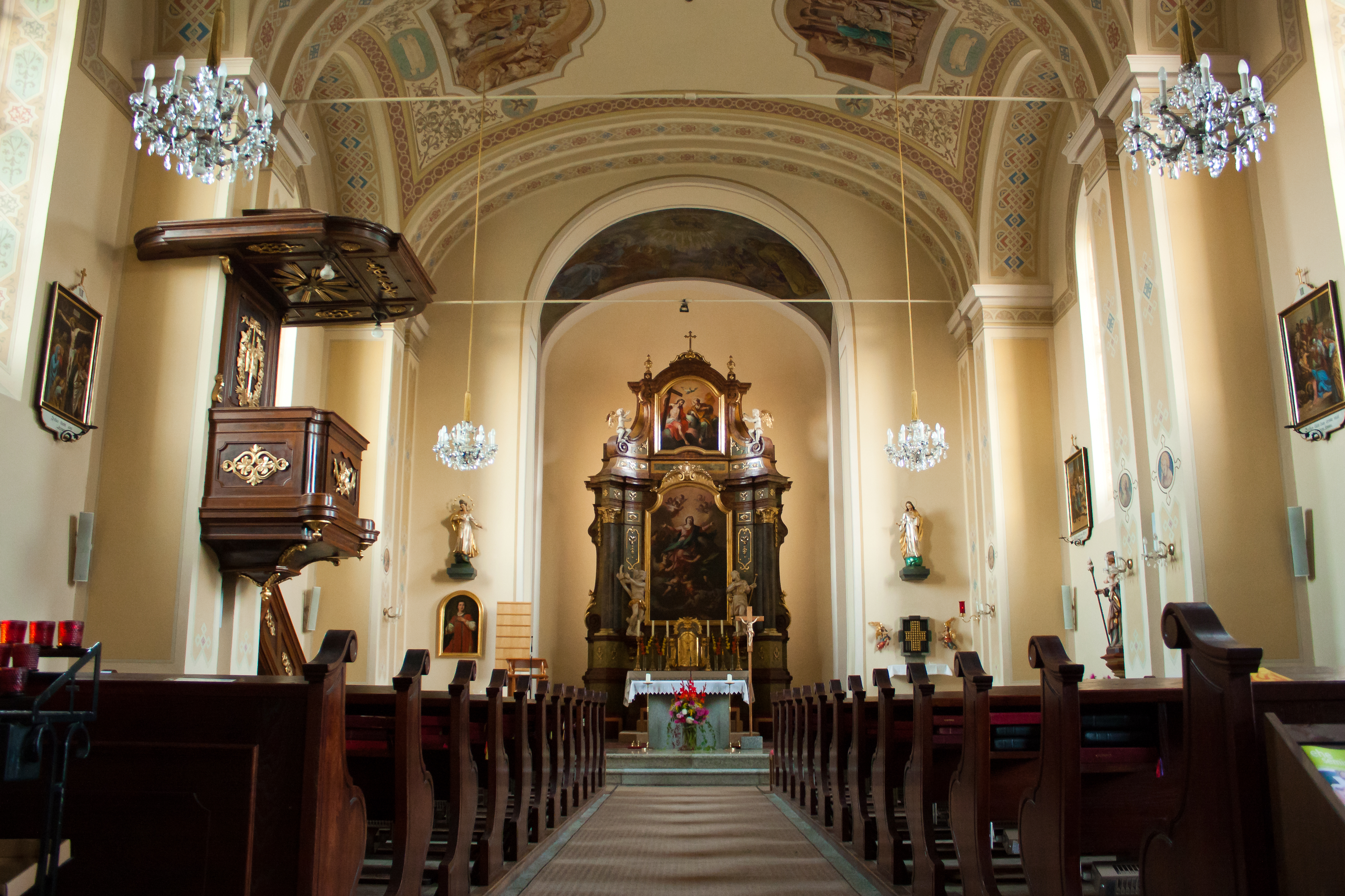 Church in Schrems from the inside